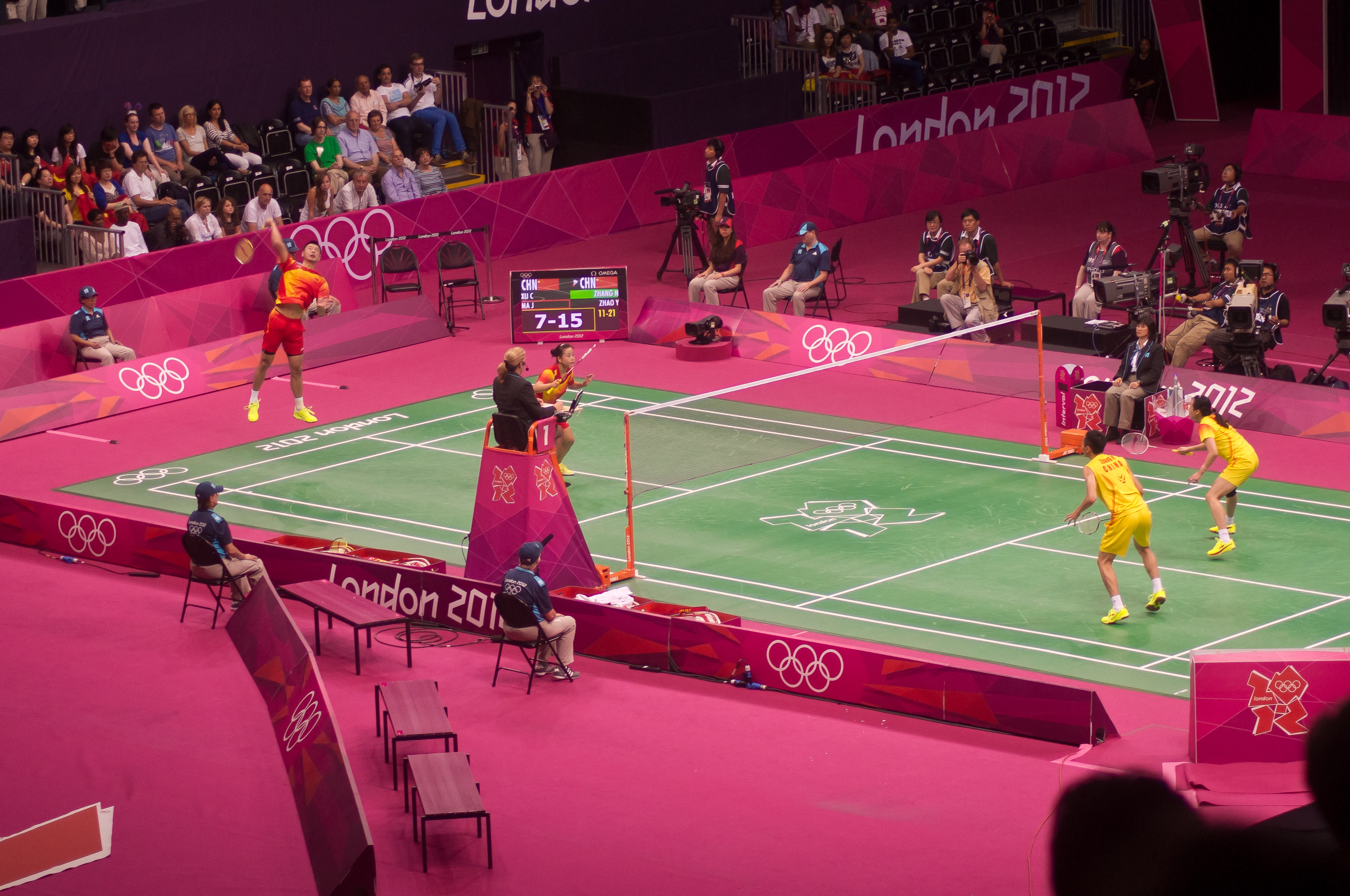 This China vs China battle was some of the most exciting badminton that I've ever seen - The doubles game is so fast and athletic